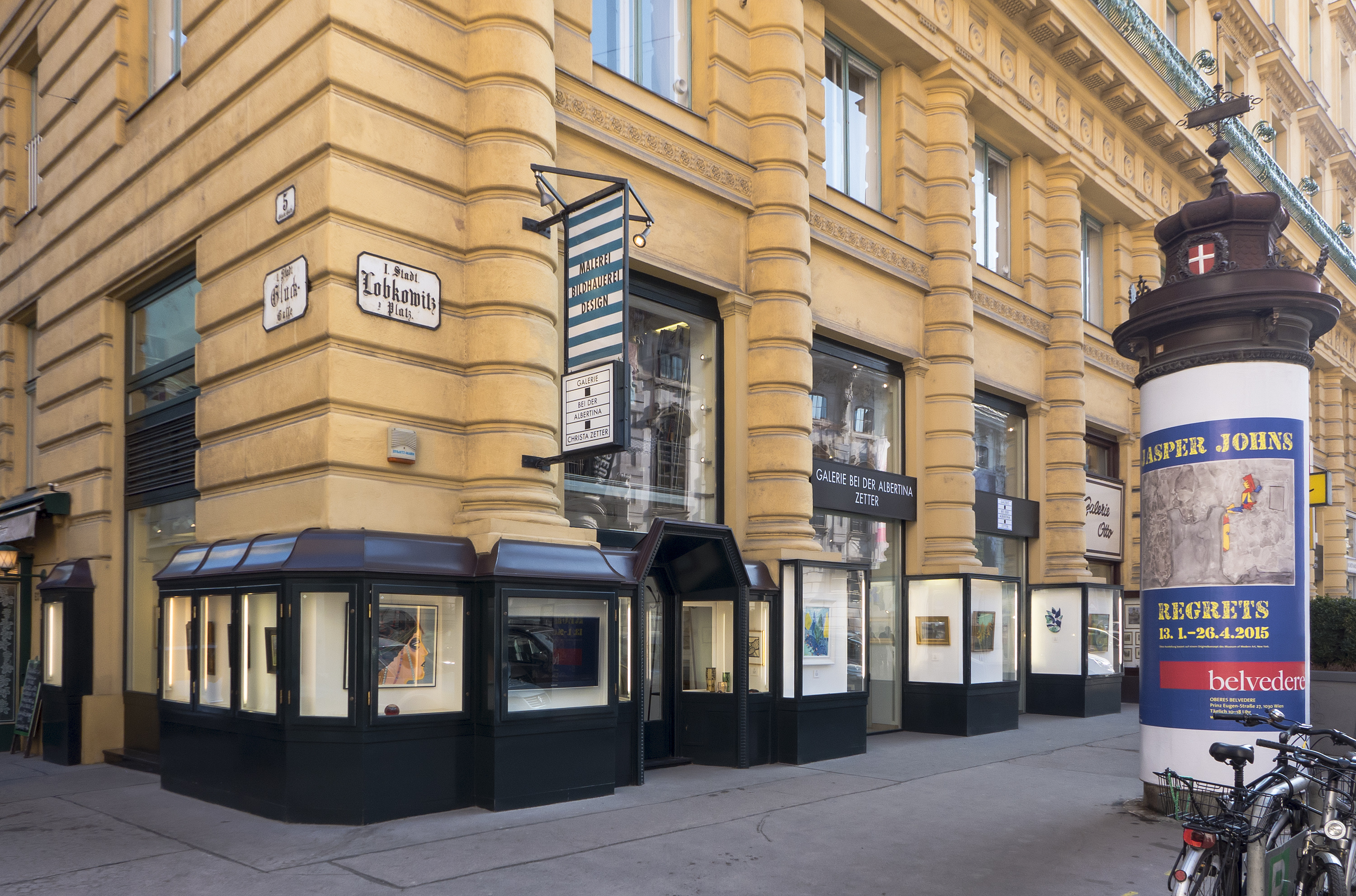 Contemporary art gallery Galerie bei der Albertina Zetter in Vienna 1